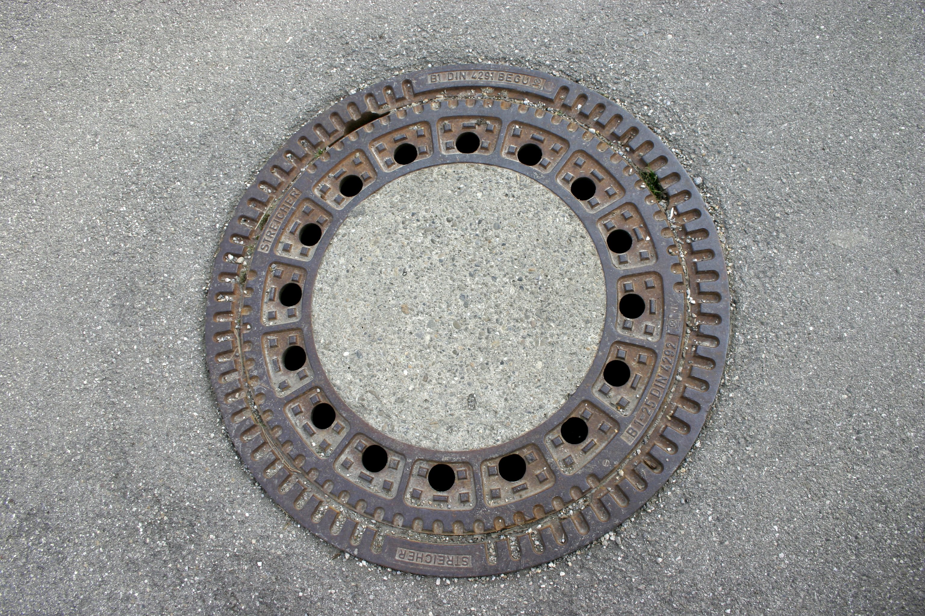 Manhole cover in Herrschig